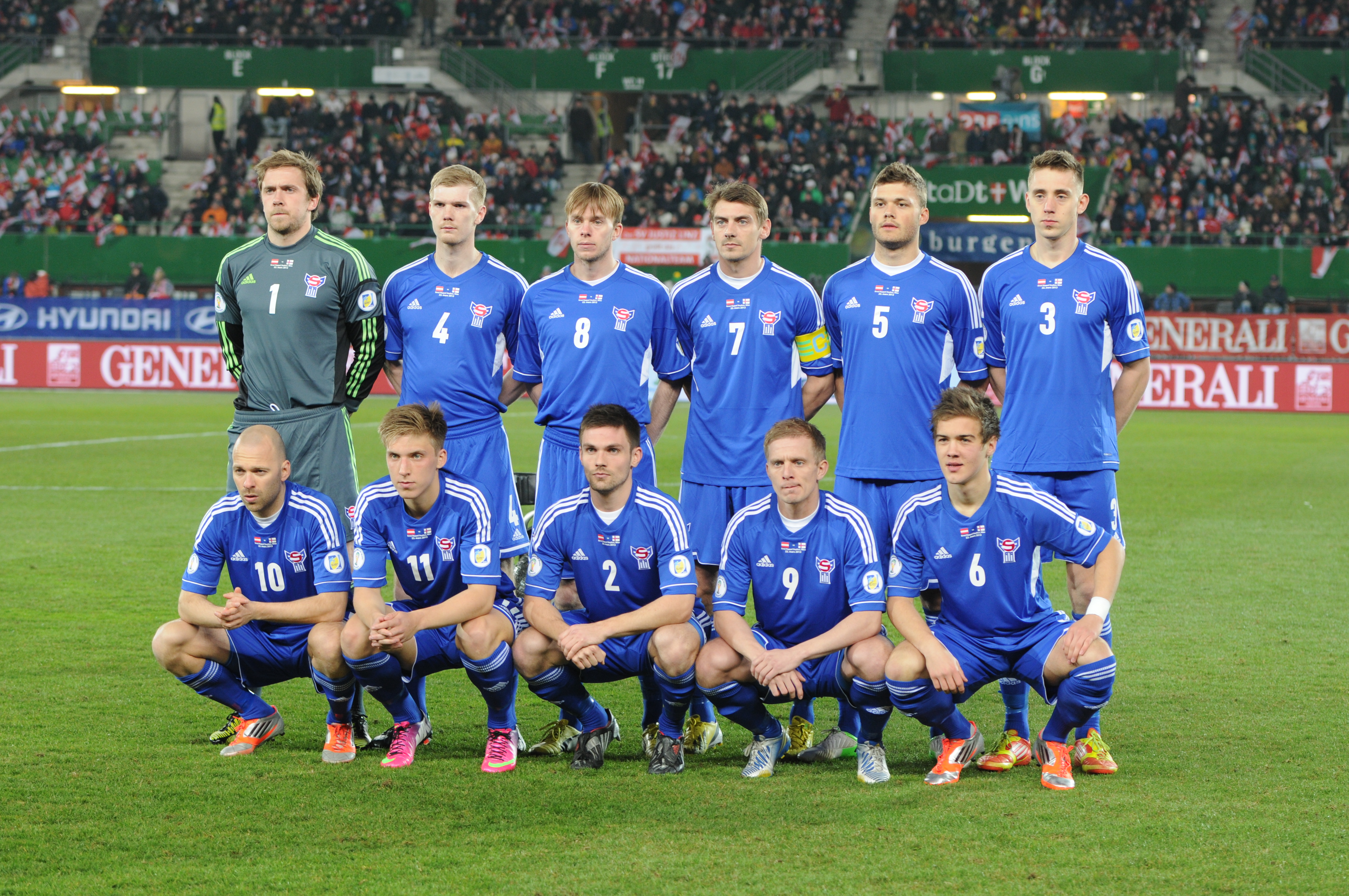 2014 FIFA World Cup qualification (UEFA), Group C: Faroer Islands national football team at 22. March 2013 before the match against the Austria national football team (0:6) in the Ernst-Happel-Stadion in Vienna The making of this work was supported by Wikimedia Austria. For other files made with the support of Wikimedia Austria, please see the category Supported by Wikimedia Österreich.